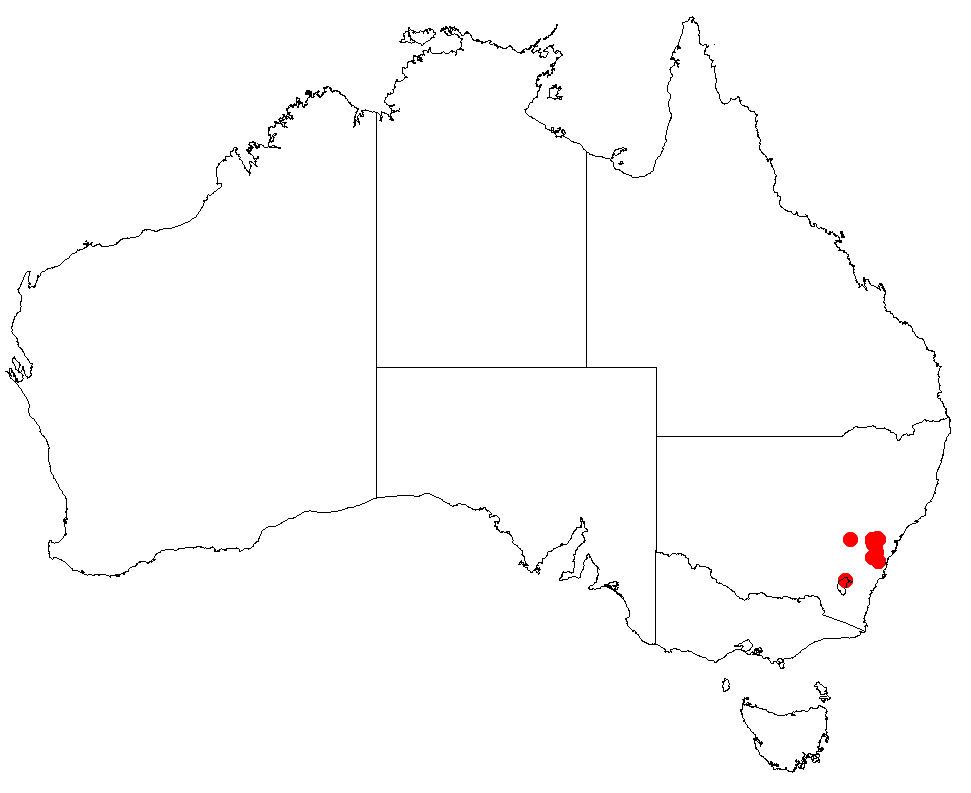 Hakea constablei Occurrence data downloaded from Australasian Virtual Herbarium on 22 November 2018 using